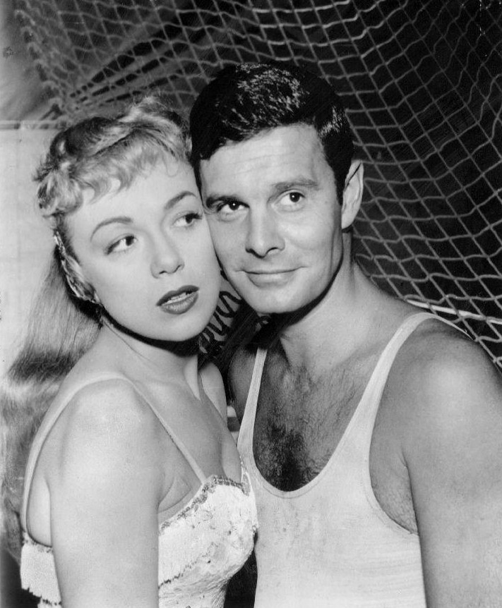 Photo of Edie Adams and Louis Jourdan from the General Electric Theater presentation of "A Falling Angel".